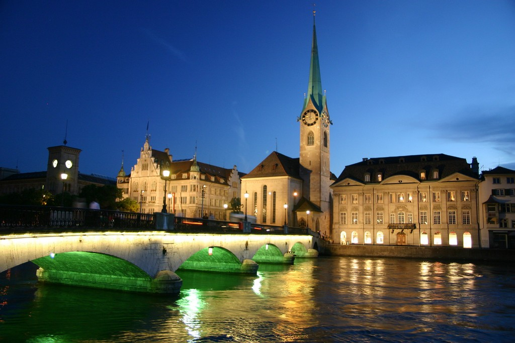 Zurich city in the night